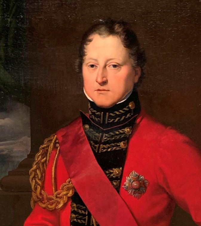 This is the original portrait of Sir Gordon Drummond after he served as a General in the War of 1812 at the battles of Lundy's Lane and Fort Erie. He served as Lieutenant Governor of Upper Canada (Ontario) 1814-1815 and Governor General and Chief Administrator of Canada 1815-1816. The Canadian National Sites and Monuments Board has identified him as a person of National significance and a plaque has been mounted in the Ontario legislature, Queen's Park, in Toronto explaining his importance. In 1882 George Theodore Berthon was asked by Ontario to make a copy of this portrait. His sketch of it is in the Library and Archives Canada collection while the completed work in owned by the Government of Ontario. This original portrait is in a private collection in Canada and is the true appearance of Drummond.